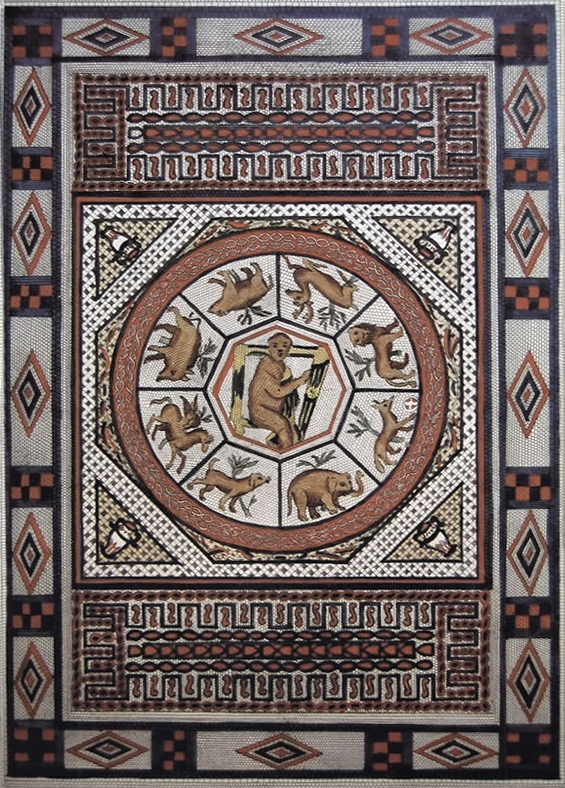 Orpheus mosaic from the Roman villa at Winterton, United Kingdom; engraving of the 18th century